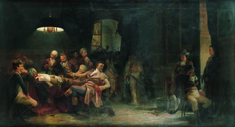 Valery Jacobi (1834-1902) Ninth Thermidor